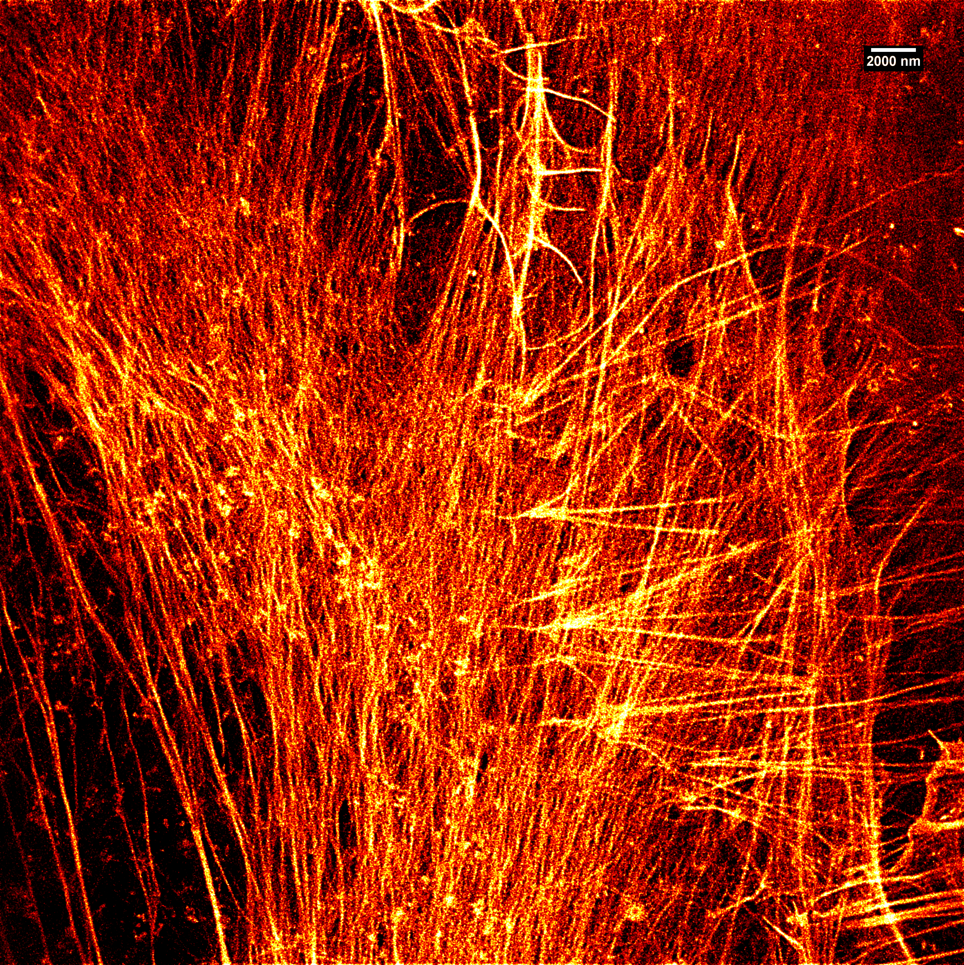 Stimulated emission depletion (STED) microscopy image of actin filaments within a cell. Metadata: Dimensions X 4096px - Physical Length: 42.91 µm Y 4096px - Physical Width: 42.91 µm System Type TCS SP5 Scanner Settings Pinhole [m]:151.6 µm Pinhole [airy]: 1.00 Voxel-Width: 10.5 nm Voxel-Height: 10.5 nm Zoom: 3.6 Objective: HCX PL APO 100.0x1.40 OIL Numerical aperture (Obj.): 1.40 Emission bandwidth PMT: begin - end 465nm - 580nm